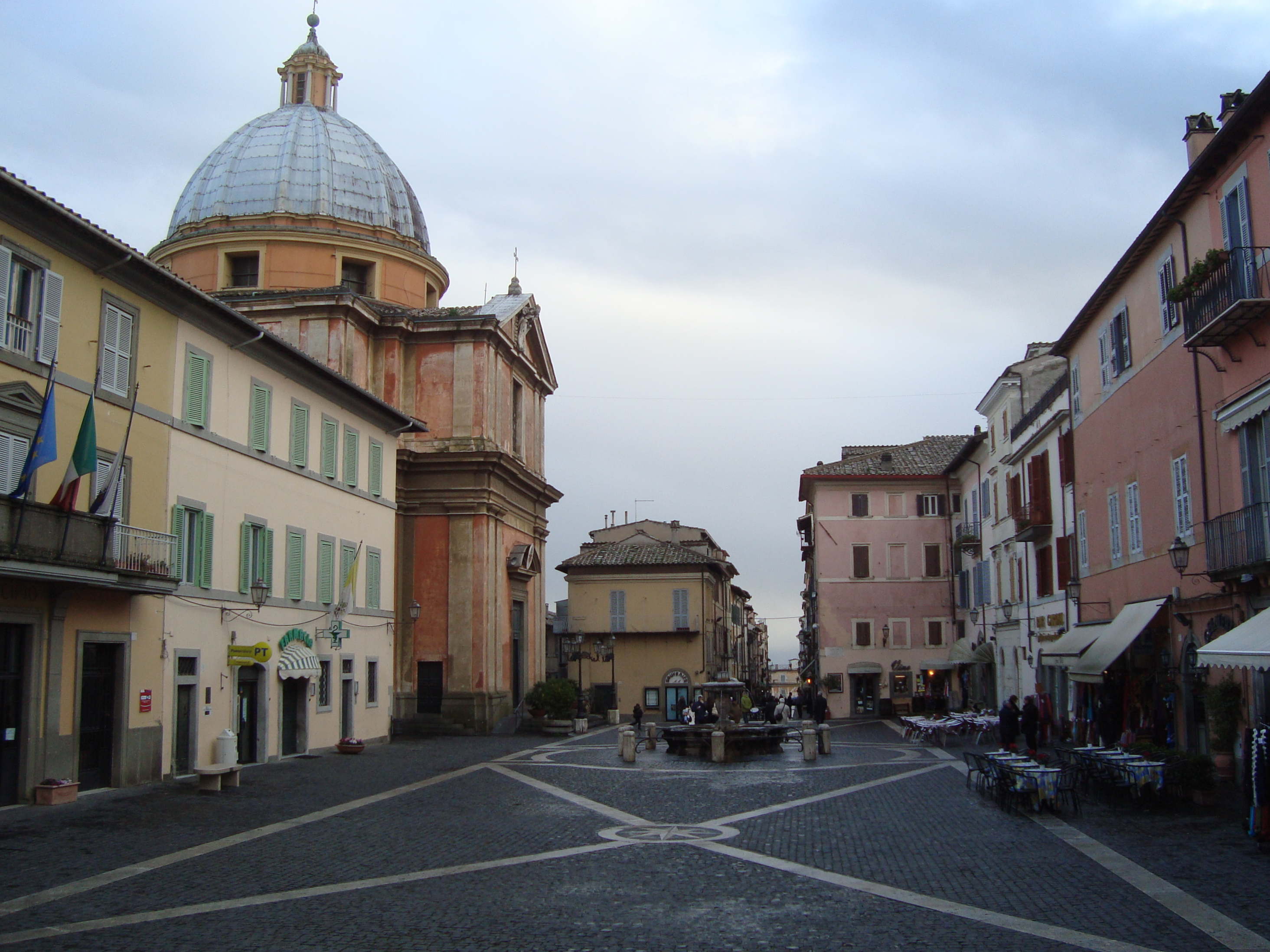 The Piazza della Liberta in Castel Gandolfo, with the Collegial San Tommaso Da Villanova